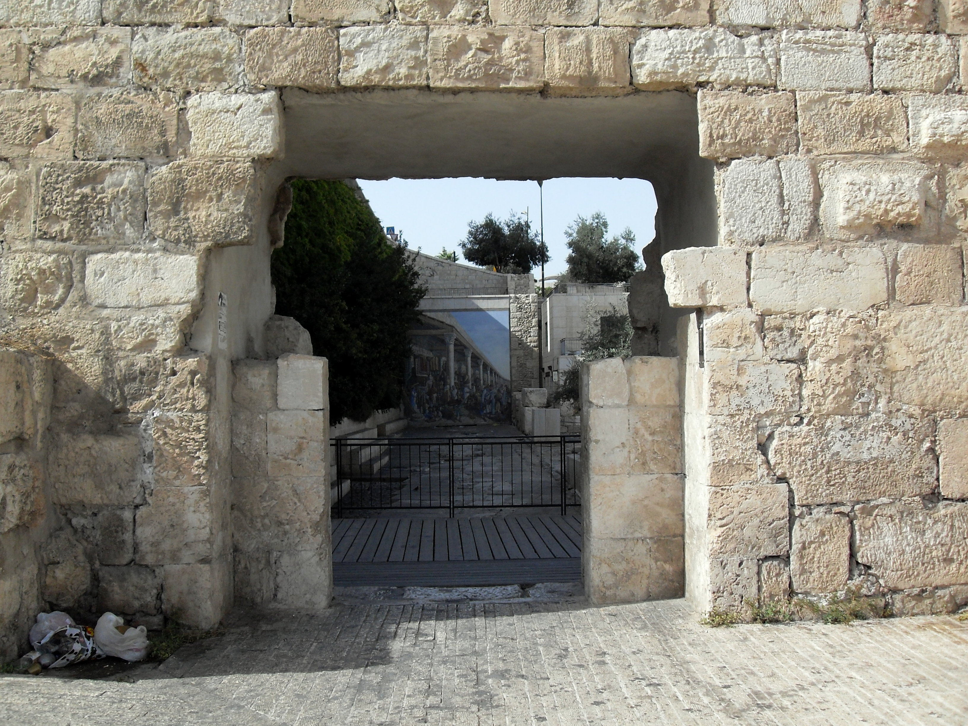 Old Jerusalem Tanner's Gate